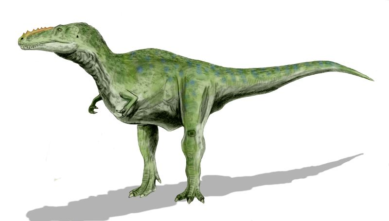 Alioramus remotus, a tyrannosaurid from the Late Cretaceous of Mongolia, pencil drawing